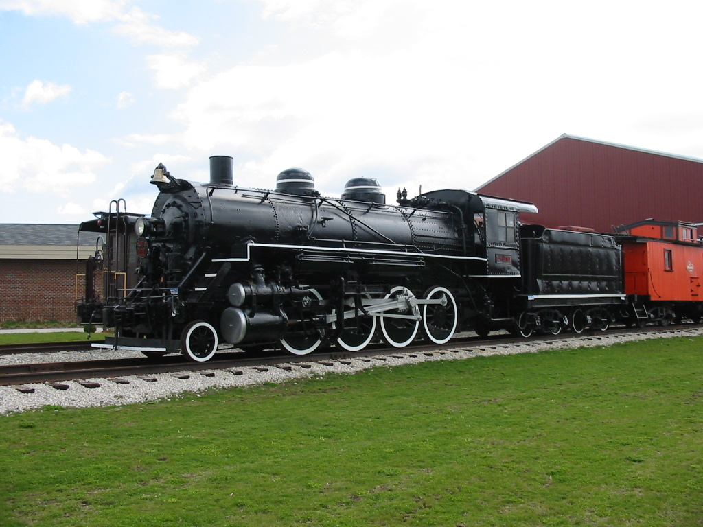 Chinese-built 2-8-0 on display at the National Railroad Museum in Green Bay, WI, April 26, 2004.